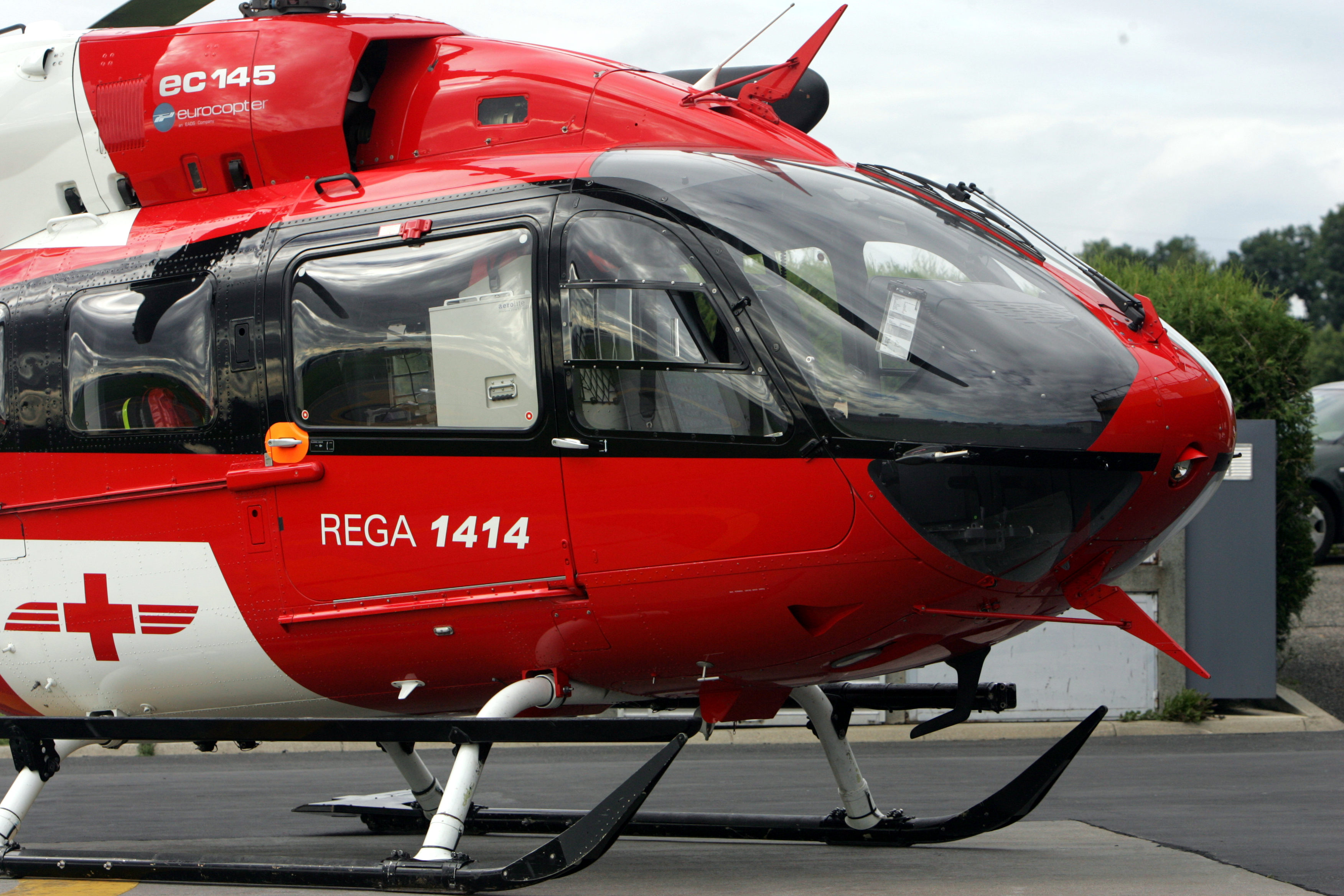 Eurocopter EC 145 of the Rega